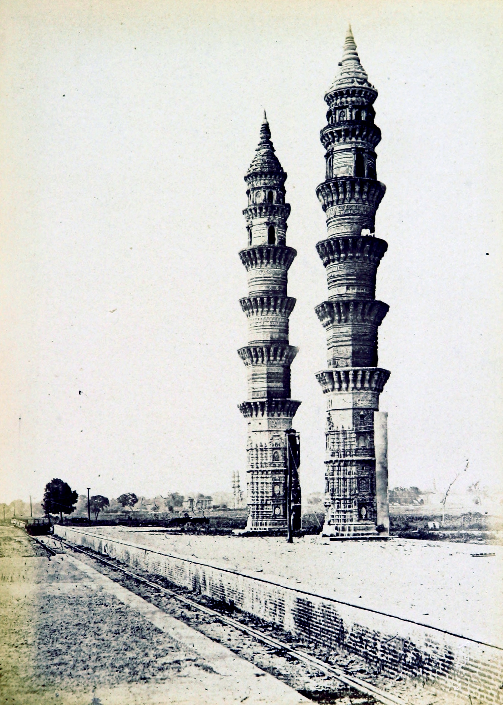 Image taken from: Title: "Architecture at Ahmedabad, the Capital of Goozerat, photographed by Colonel Biggs, ... With an historical and descriptive sketch, by T. C. H., ... and architectural notes by J. Fergusson, etc" Author: HOPE, Theodore Cracraft - Sir, K.C.S.I Contributor: BIGGS, Thomas. Contributor: FERGUSSON, James - Architect Shelfmark: "British Library HMNTS 10057.f.17.", "British Library OC V 6665" Page: 301 Place of Publishing: London Date of Publishing: 1866 Issuance: monographic Identifier: 001730119 Note: The colours, contrast and appearance of these illustrations are unlikely to be true to life. They are derived from scanned images that have been enhanced for machine interpretation and have been altered from their originals. If you wish to purchase a high quality copy of the page that this image is drawn from, please order it here. Please note that you will need to enter details from the above list - such as the shelfmark, the page, the book's volume and so on - when filling out your order. Following this or the link above will take you to the British Library's integrated catalogue. You will be able to download a PDF of the book this image is taken from, as well as view the pages up close with the 'itemViewer'. Click on the 'related items' to search for the electronic version of this work. Click here to see all the illustrations in this book and click here to browse other illustrations published in books in the same year. Please click on the tags shown on the right-hand side for other ways to browse the illustrations.